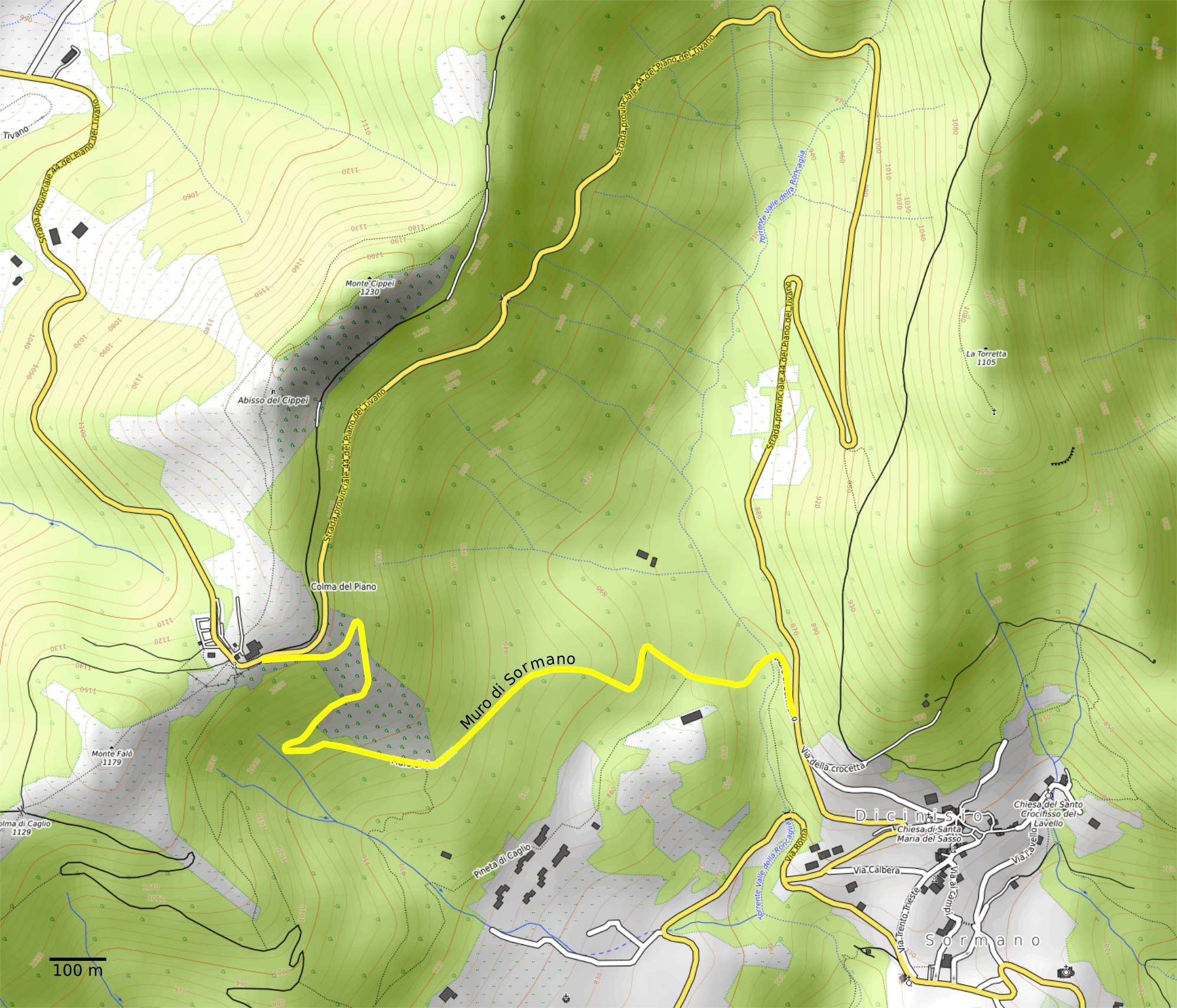 Map of Muro di Sormano